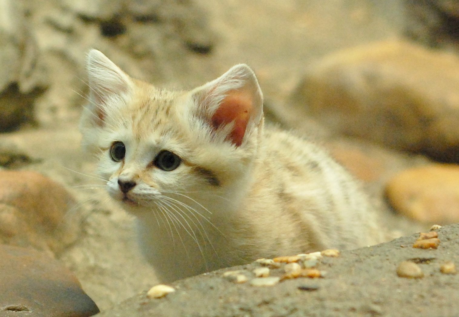 Curious Arabian Sand Kitten.